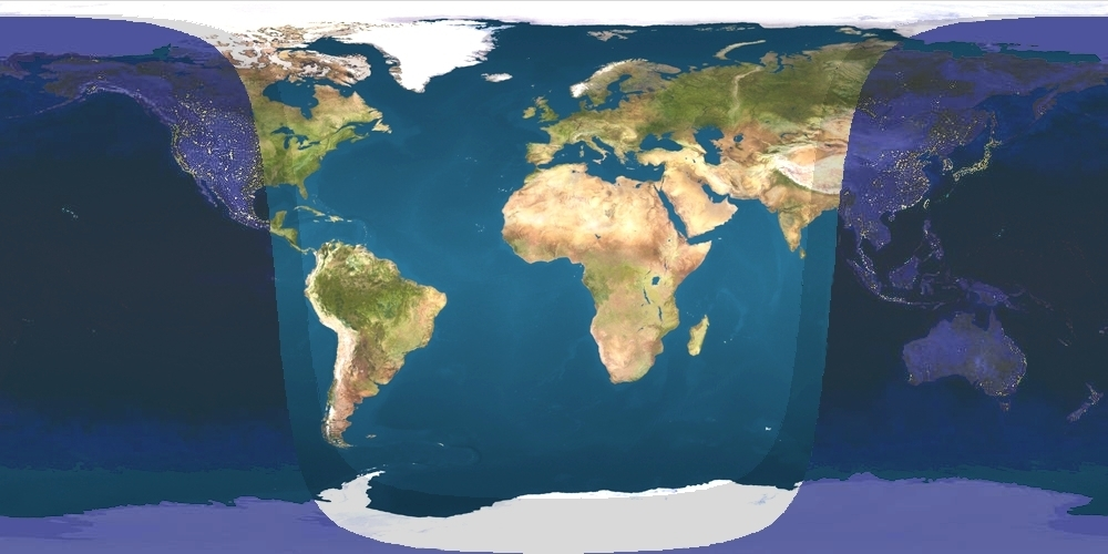 Nonscientific daylight/sunlight border map (12:00 UTC); timezone.